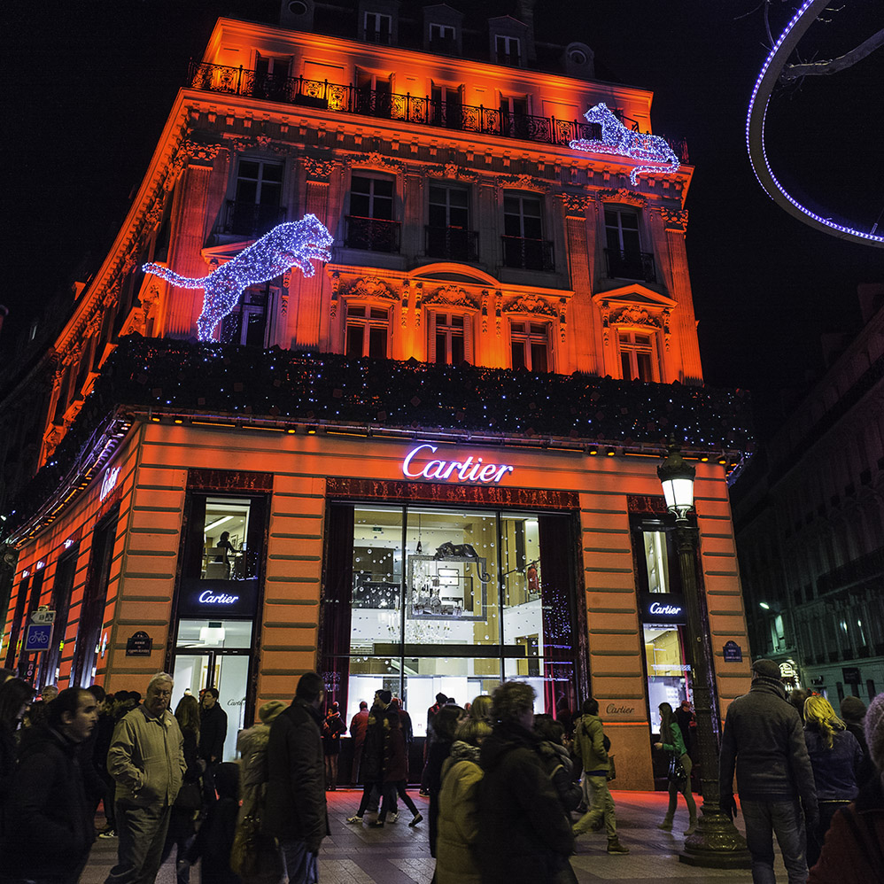 A Cartier store in Paris.